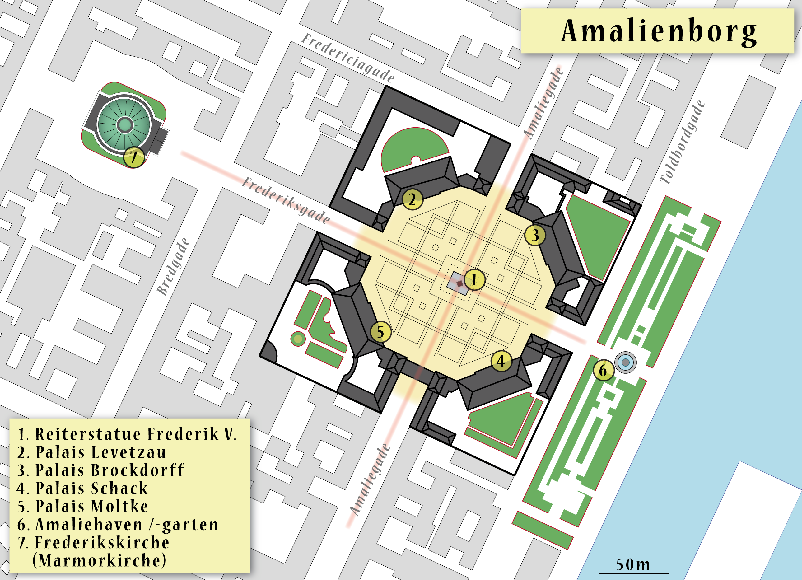 Map of the Amalienborg Palace (German)